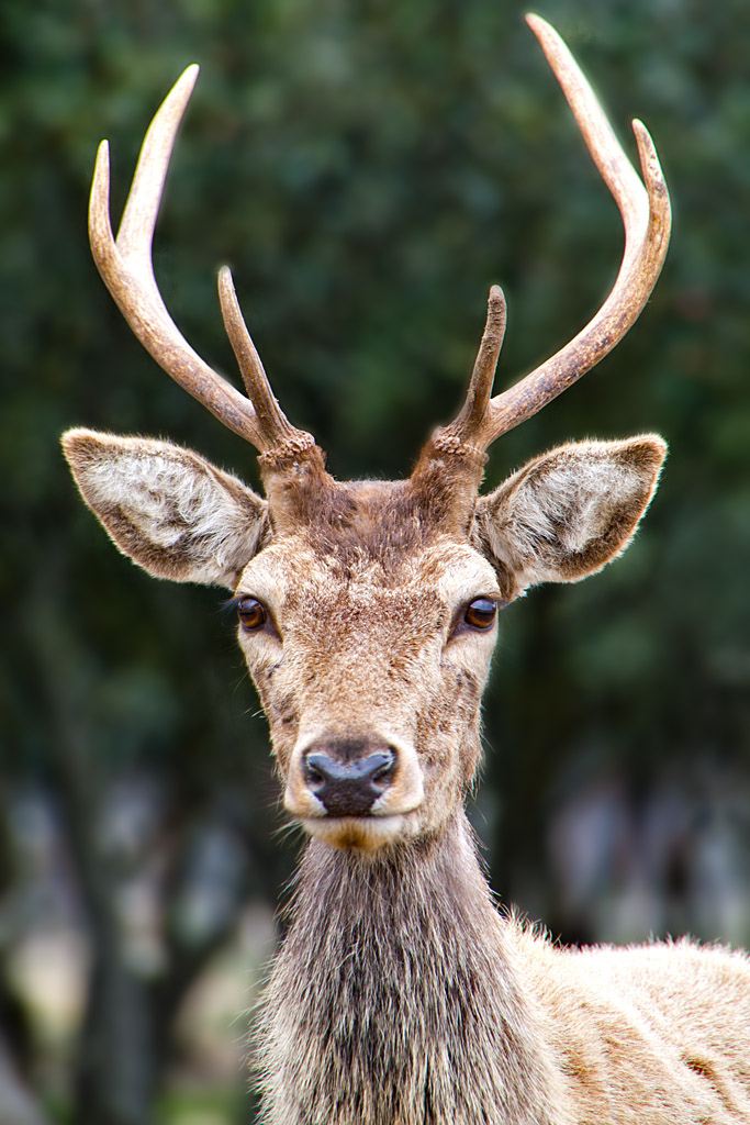 Deer, Cervus Elaphus